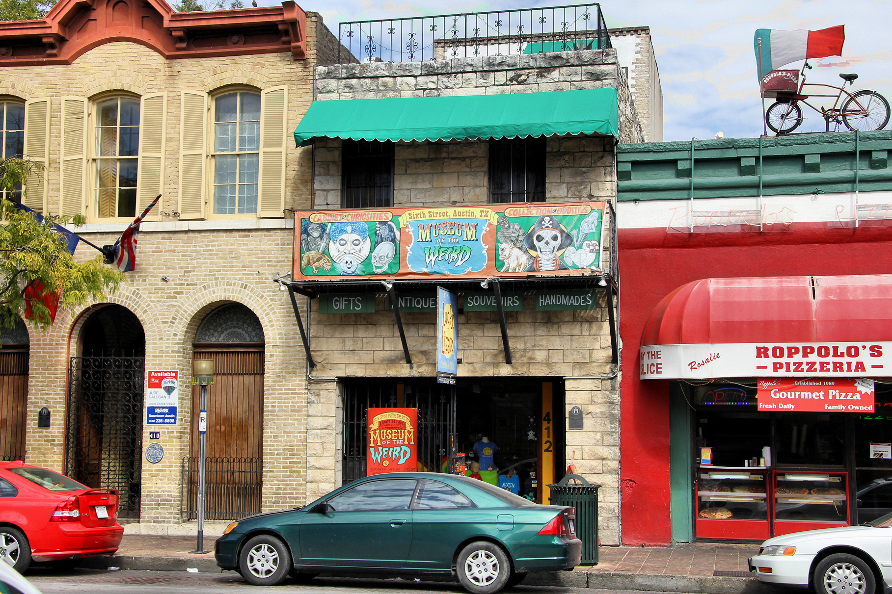 Museum of the Weird on East Sixth St in Austin, Texas, United States.